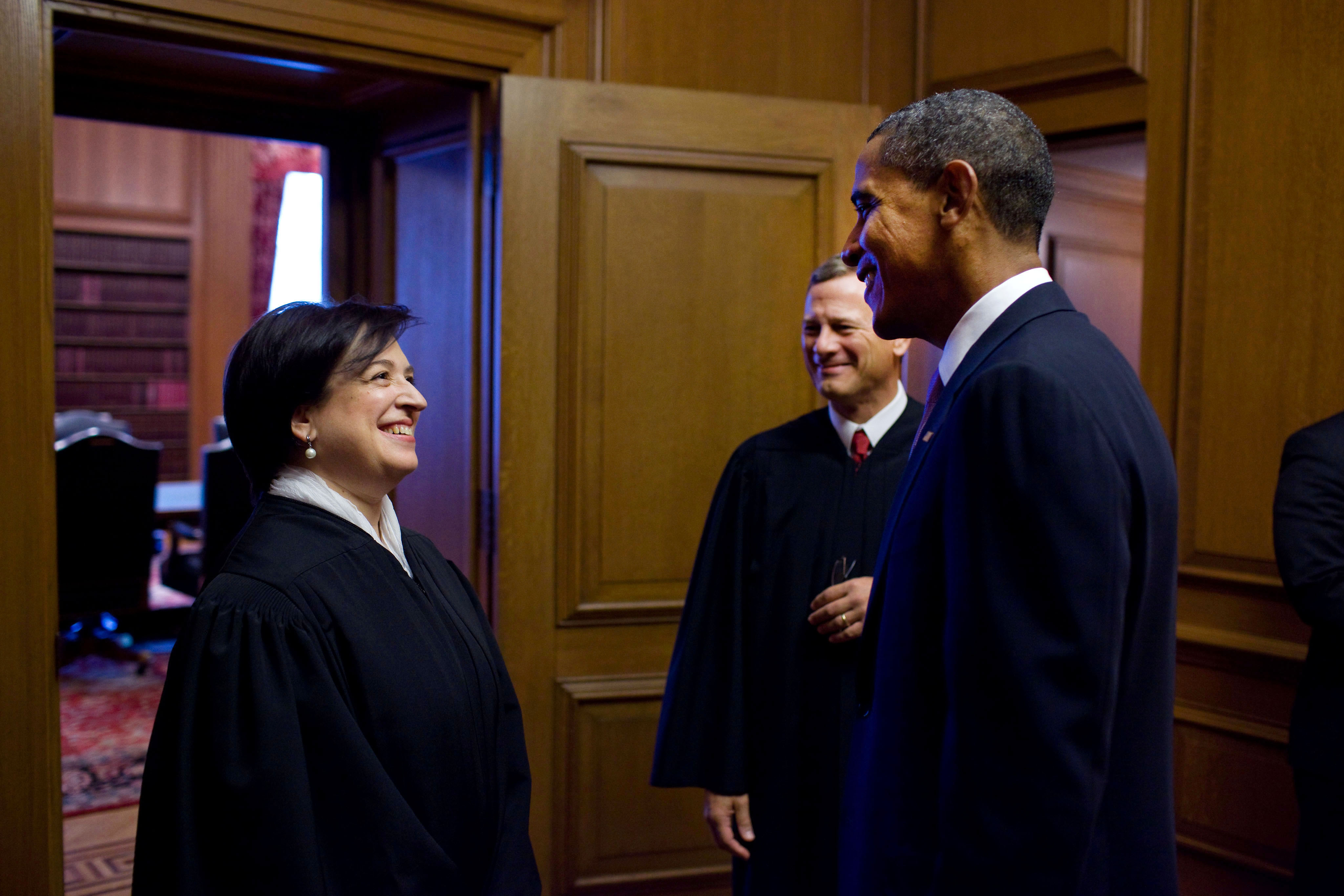 President Barack Obama talks with Justice Elena Kagan and Chief Justice John Roberts before Kagan's Investiture Ceremony at the Supreme Court, Oct. 1, 2010. (Official White House Photo by Pete Souza) This official White House photograph is in the public domain from a copyright perspective, so while restrictions such as personality or privacy rights may apply, in general, manipulations are allowed.